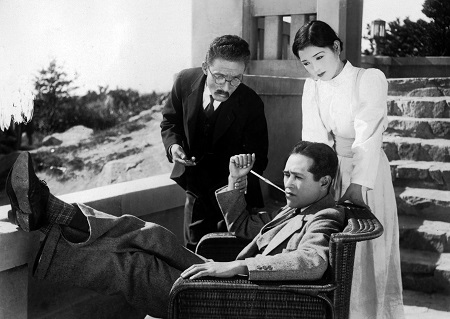 Kōji Shima (center) in Ase (汗) directed by Tomu Uchida - 1929